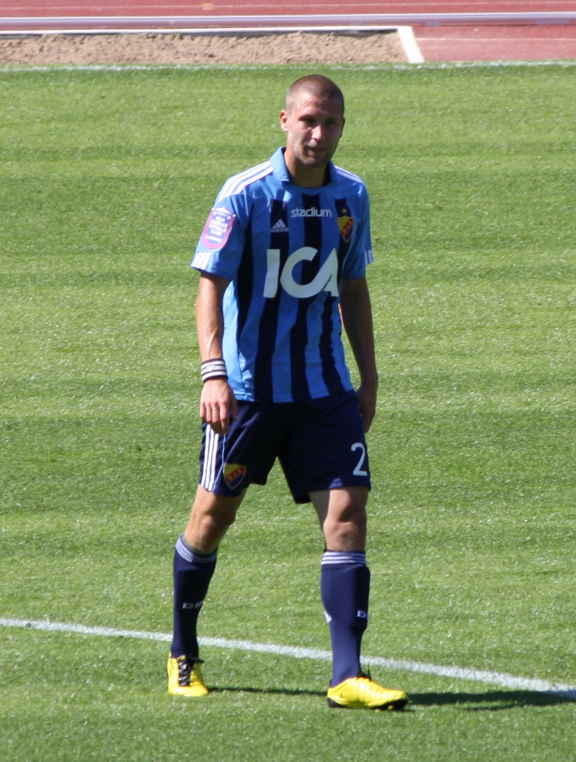 Finnish football player Joona Toivio.